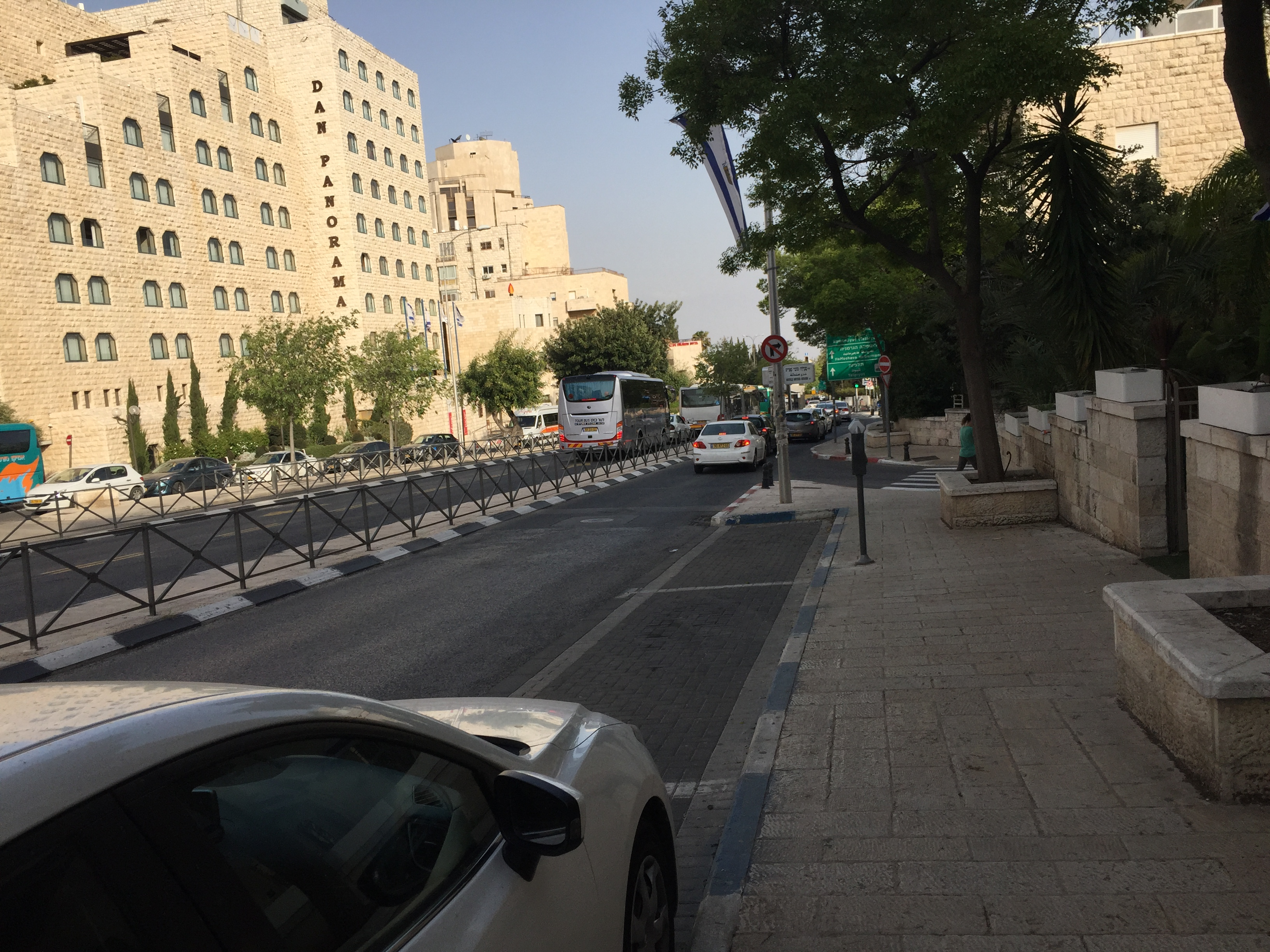 Jerusalem, Keren HaYesod street 39, Dan Panorama Hotel, Jerusalem Bus Rapid Transit line along Keren HaYesod.